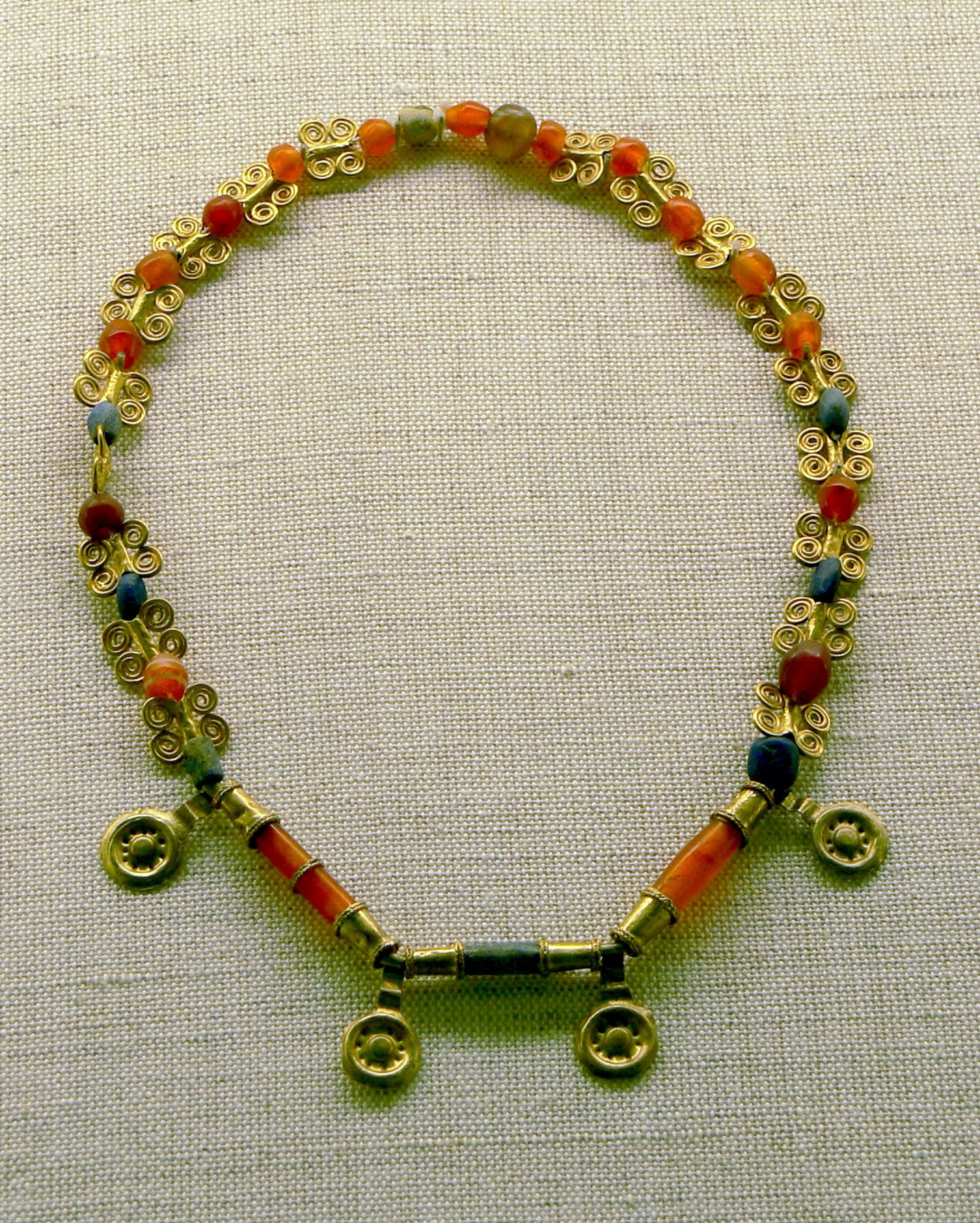 Museum of Ancient Near East ( Berlin ). Golden necklace ( 2000 BC ). Grave 20 of Assur (Qalaat Sherqat).